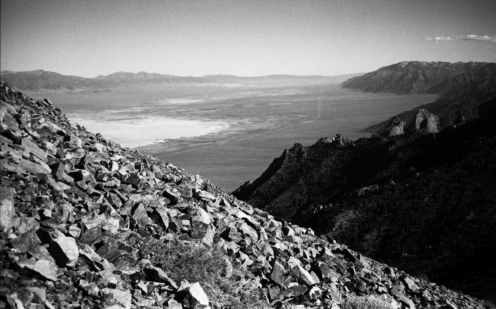 View of Big Smoky Valley (Nevada), from Toiyabe Range Peak, Looking South